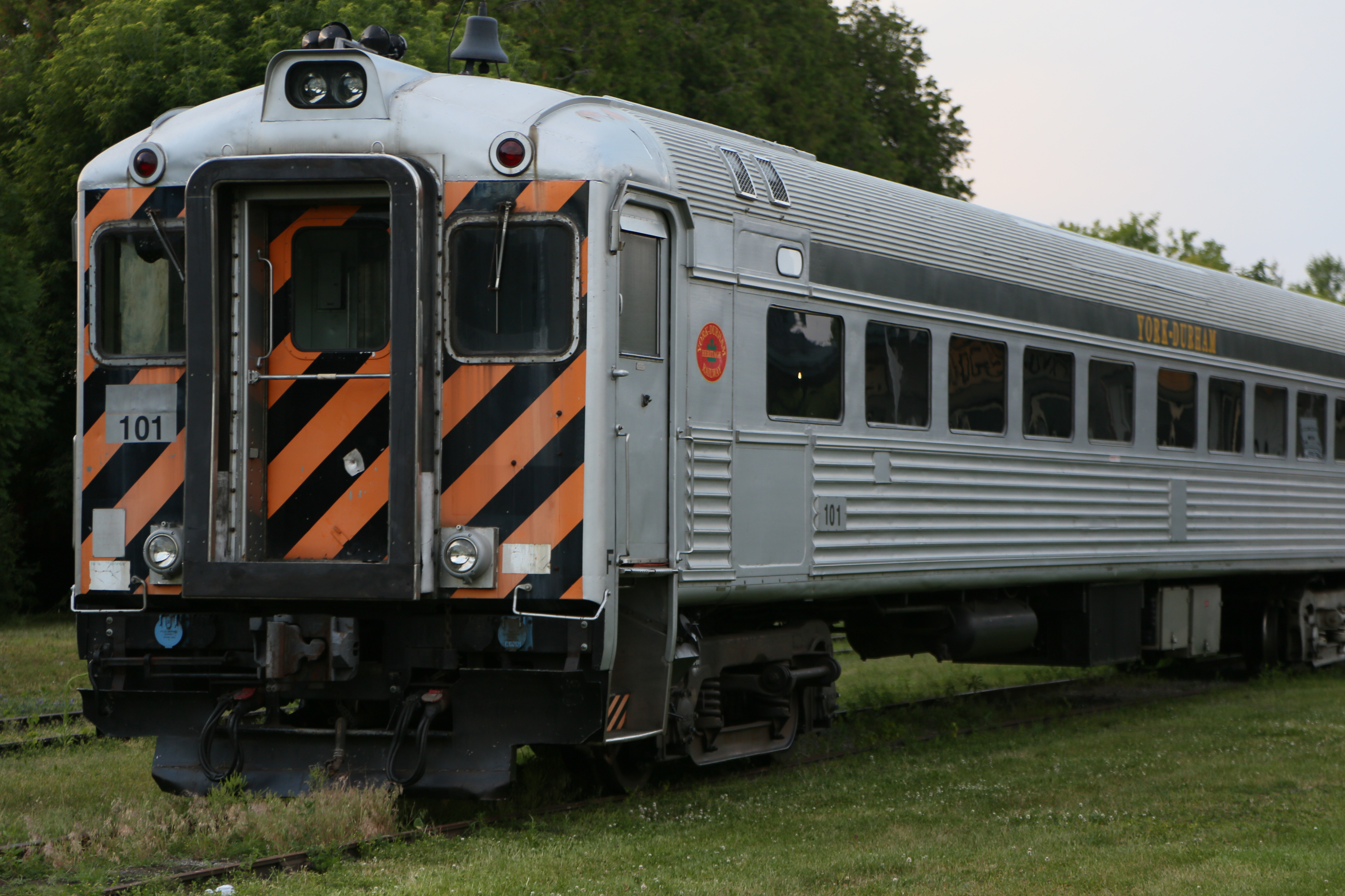 IMG_3458.jpg York–Durham Heritage Railway